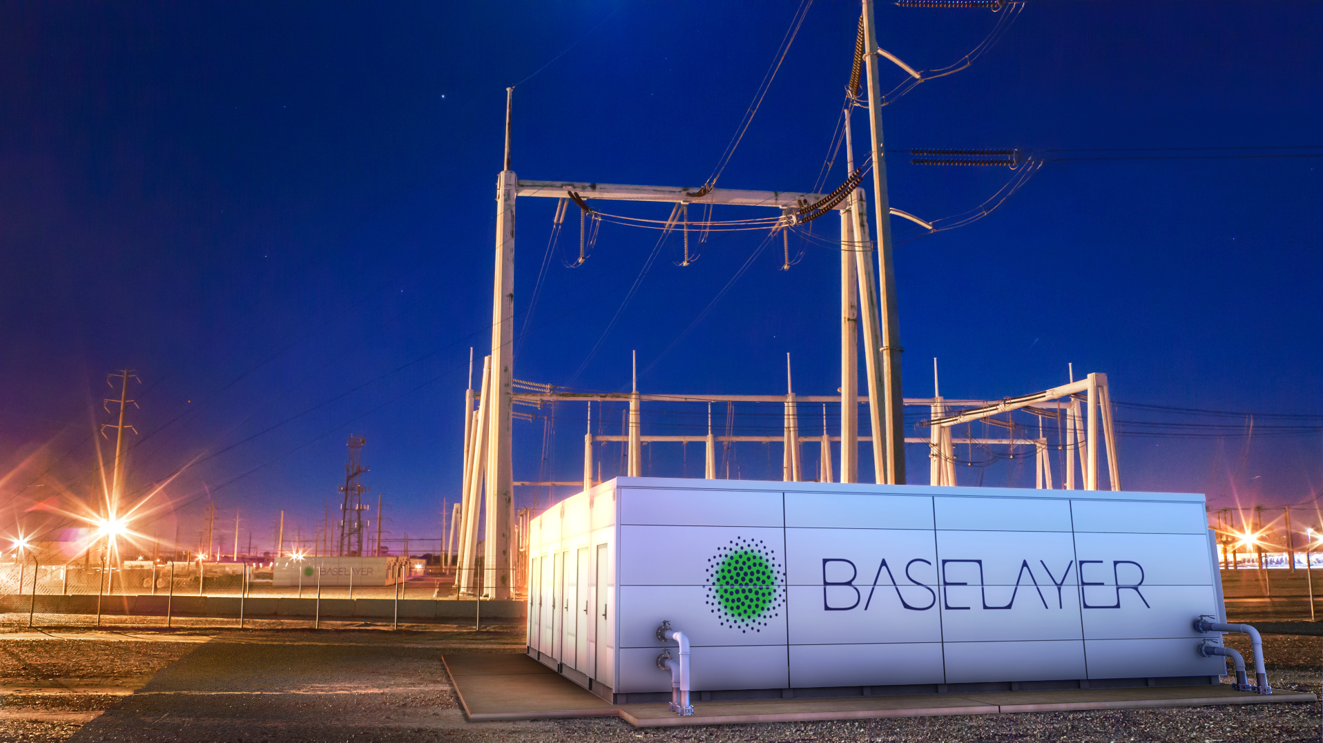 A modular data center (Baselayer Edge) connected to the power grid at a utility substation – unidentified location